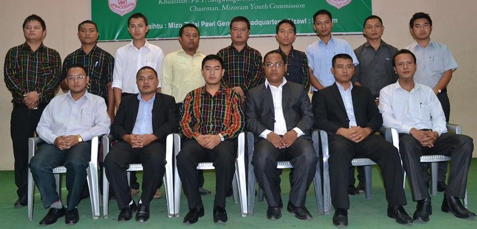 MZP OB and Secretaries